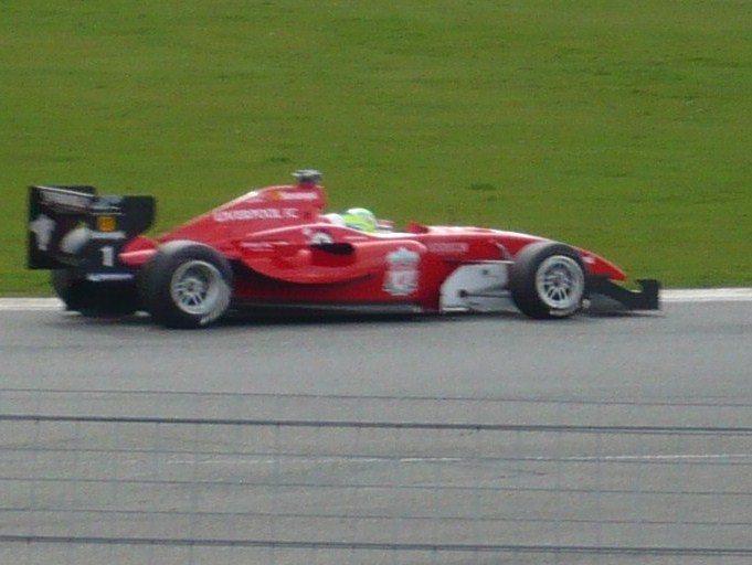 The Liverpool FC Superleague Formula car. Photo taken by me at Silverstone Circuit during its 2010 SF round.